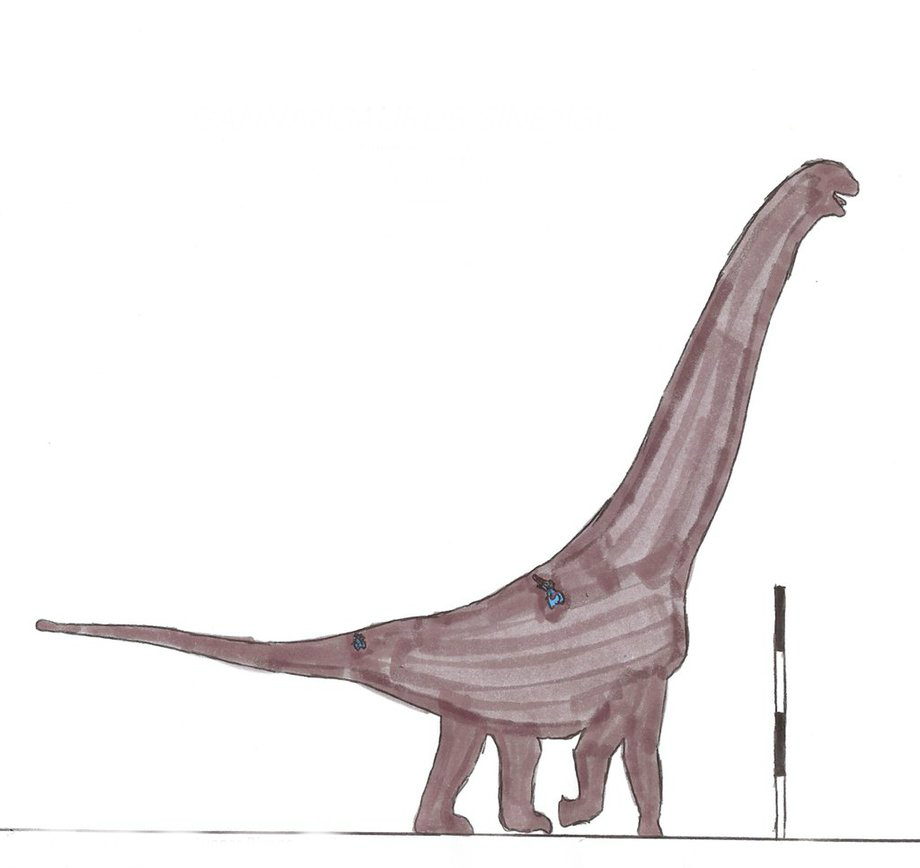 Skeletal restoration of Gannansaurus sinensis. Scale bar equals 4m.